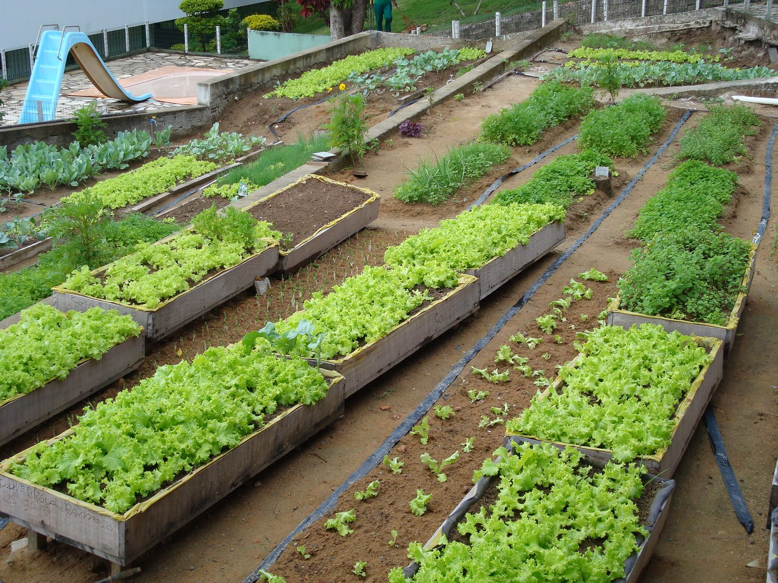 The garden at CEIFAR, a community project in Salvador, Bahia Brazil. CEIFAR is located in the Tancredo Neves Neighborhood.